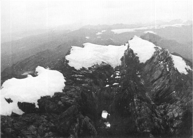 Oblique aerial photograph looking east at the glaciers in 1972. Photograph acquired during the Carstensz Glaciers Expeditions (CGE). Left to right: Northwall Firn, Meren Glacier, and Carstensz Glacier.